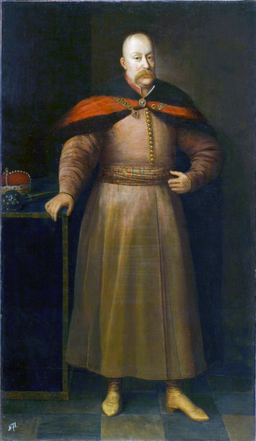 Portrait of Janusz Radziwiłł (1612–1655).